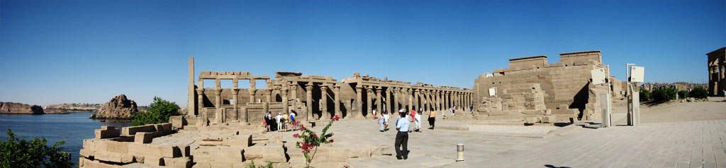 A panoramic view at the Philae temple in Egypt. Picture taken by me, Benjamin Franck, on Nov 2005.